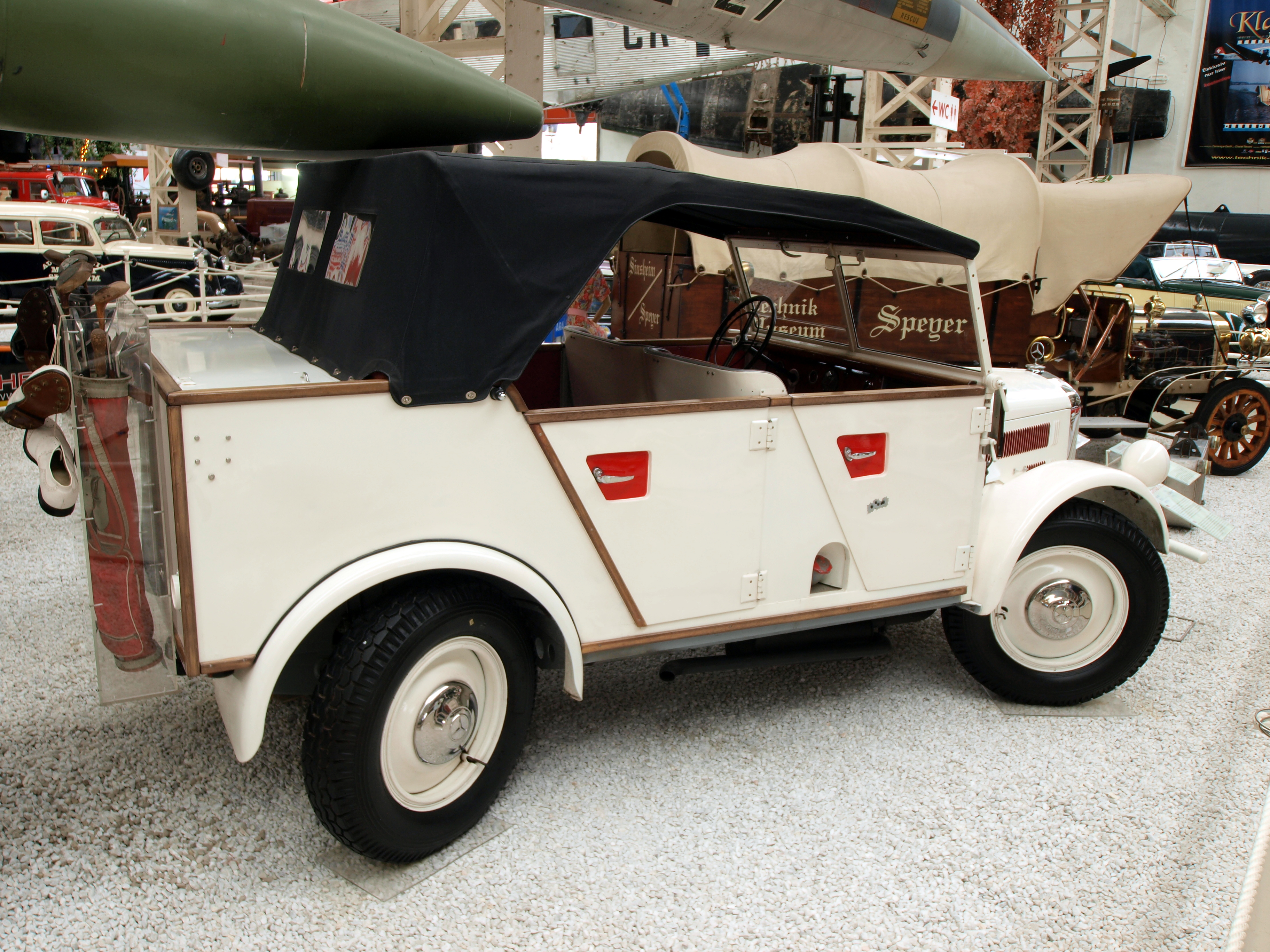 Photographed at the Technik Museum Speyer, Germany.